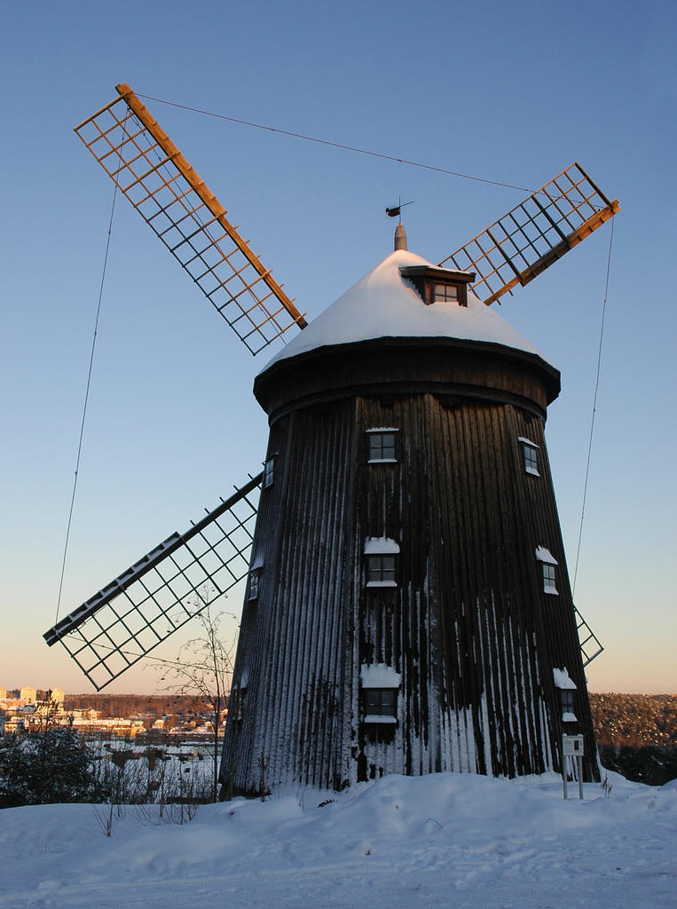 The Windmill at Torekällberget in the city of Södertälje in the Swedish province of Sudermannia